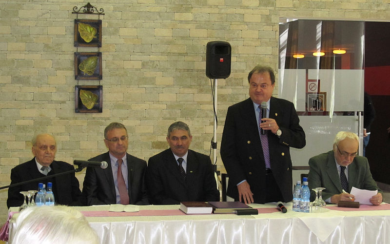 Vasile Blaga speaking at Gavril Creța's "Treaty of Steam and Gas Turbines" book launch, Timisoara, 2012-03-28.